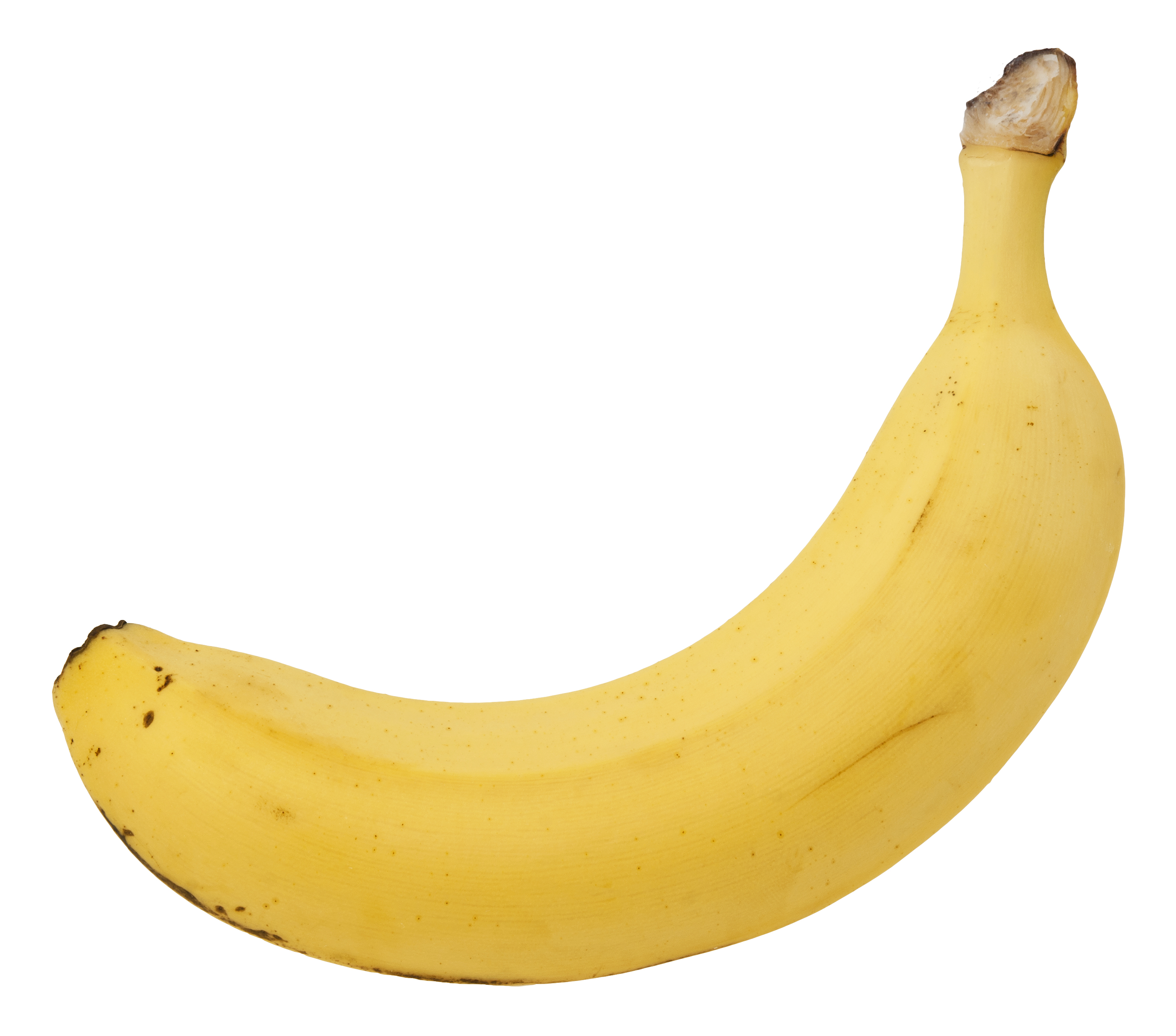 A single banana. A common Cavendish type, bought from a supermarket in North America.